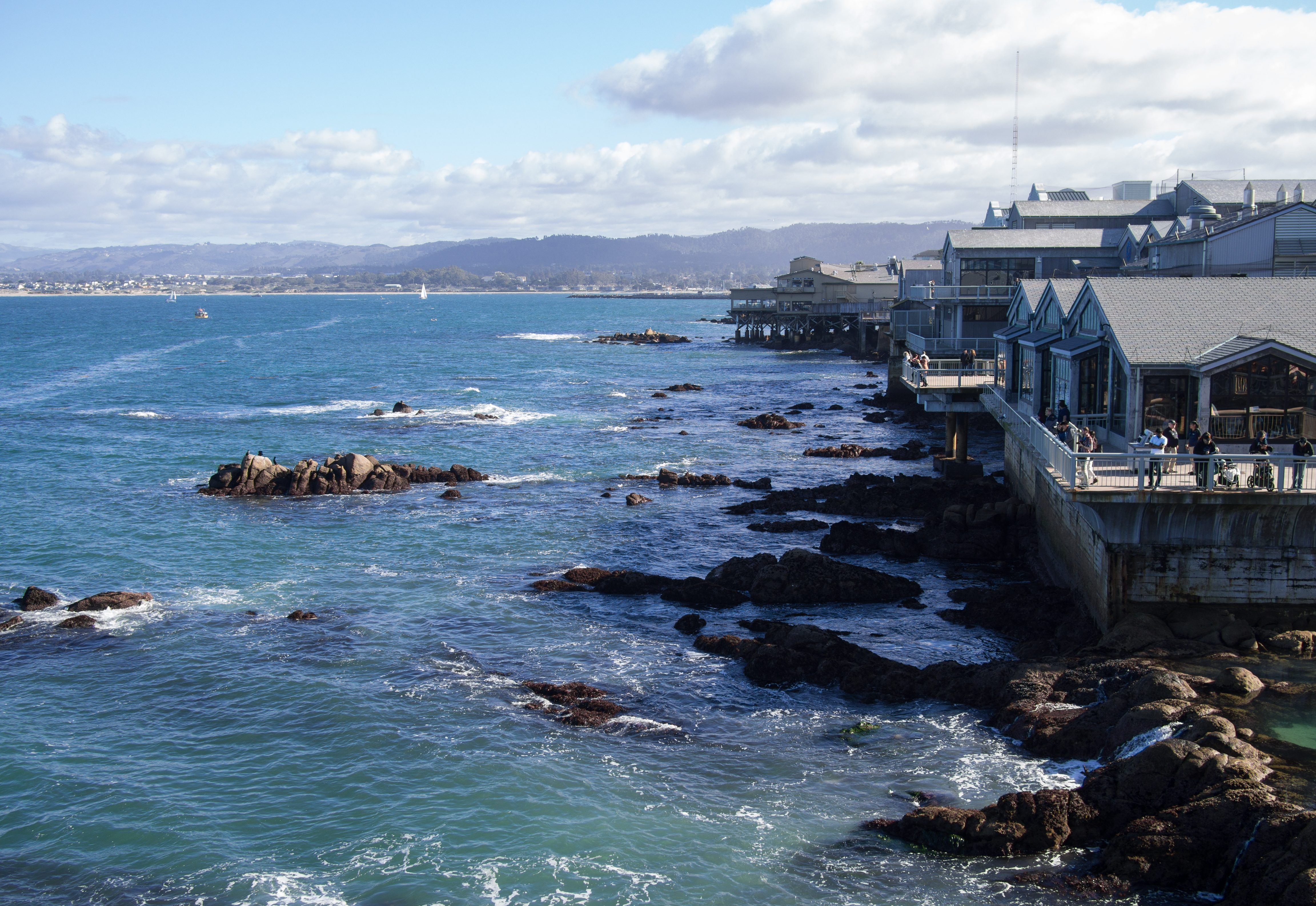 Looking down the back of Cannery Row from the Monterey Bay Aquarium.